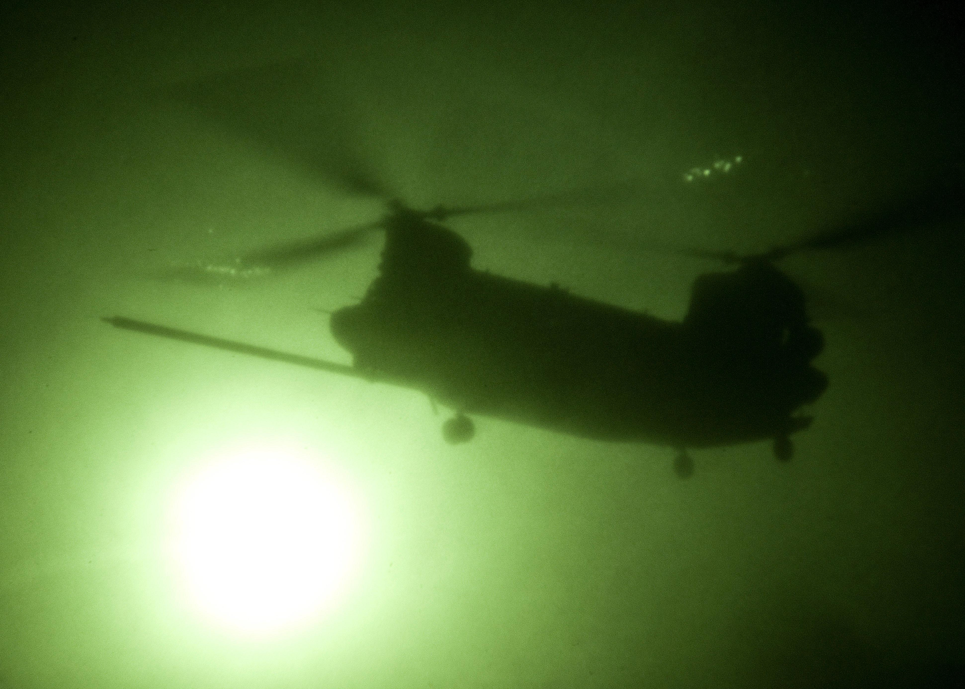 An MH-47 Chinook flown by 160th Special Operations Aviation Regiment (SOAR) hovers while preparing to pick up military personnel during night operations in Afghanistan.